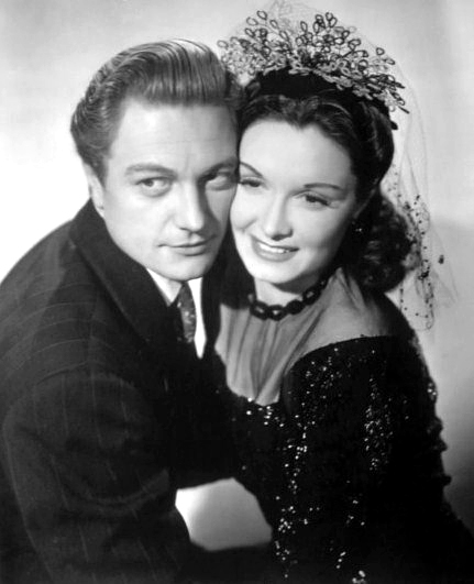 Richard Denning and Gail Patrick in Quiet Please, Murder (1943) - publicity still (cropped - original image : see source)